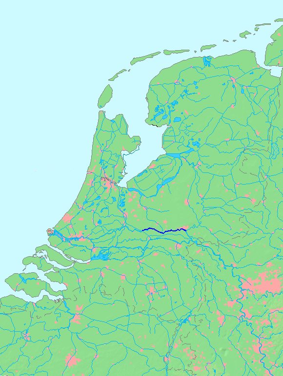 Location of a waterway (river/canal) in the Netherlands: Nederrijn between IJsselkop and Lek